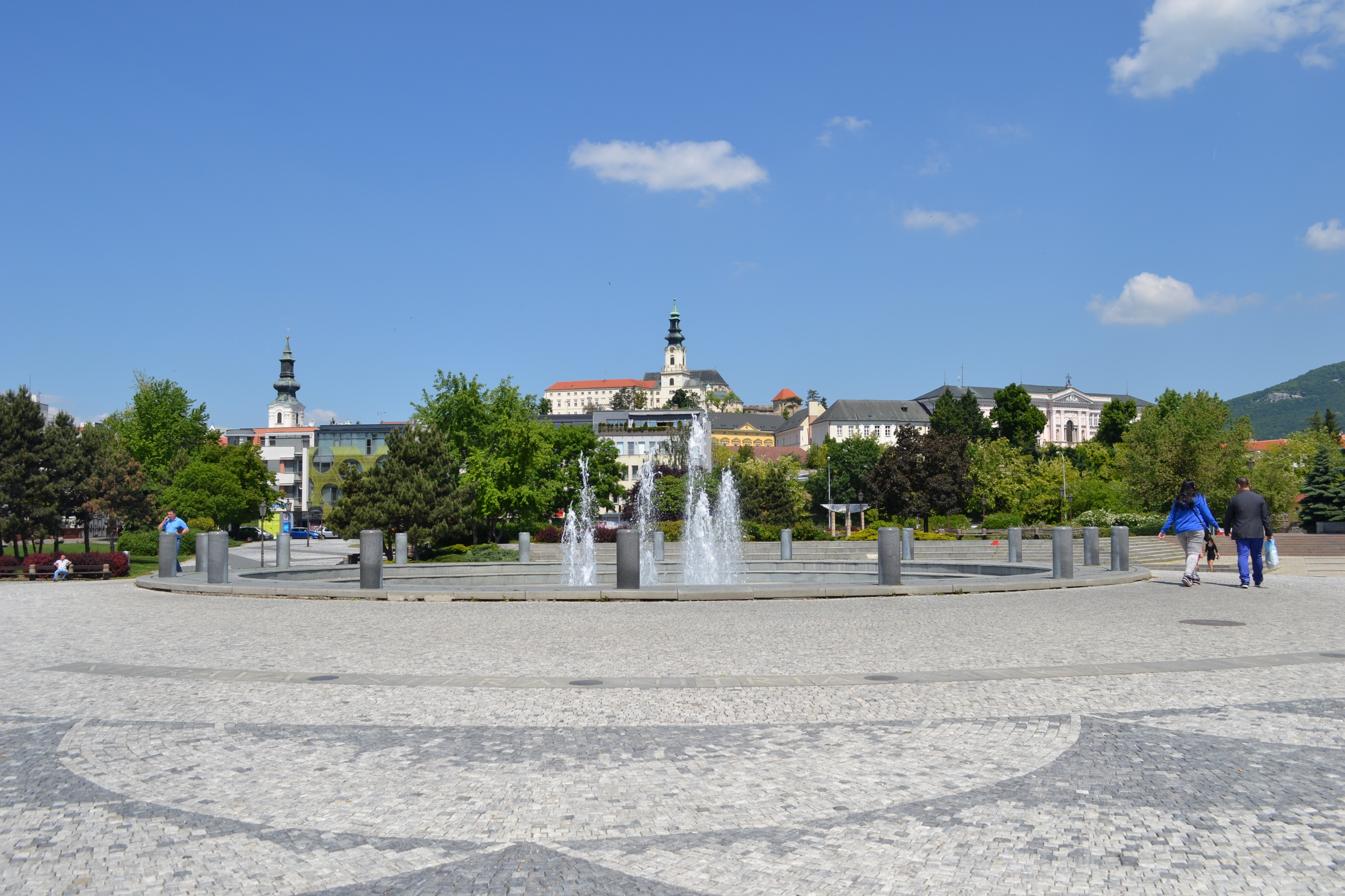 Svätopluk Square in NitraSlovenčina: Svätoplukovo námestie v Nitre